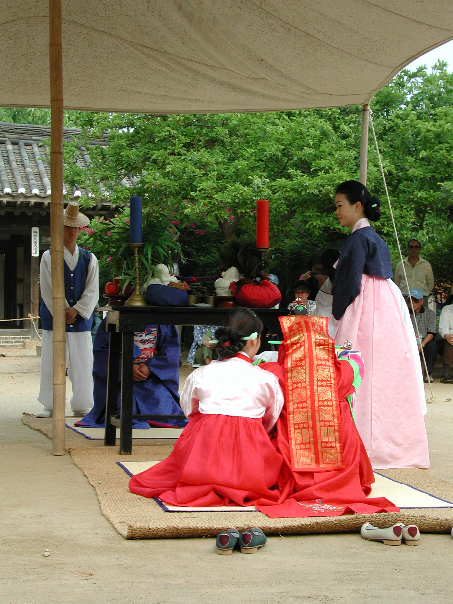 Korean traditional wedding being held at Korean Folk Village (Minsokchon) in Yongin, Gyeonggi-do, Korea